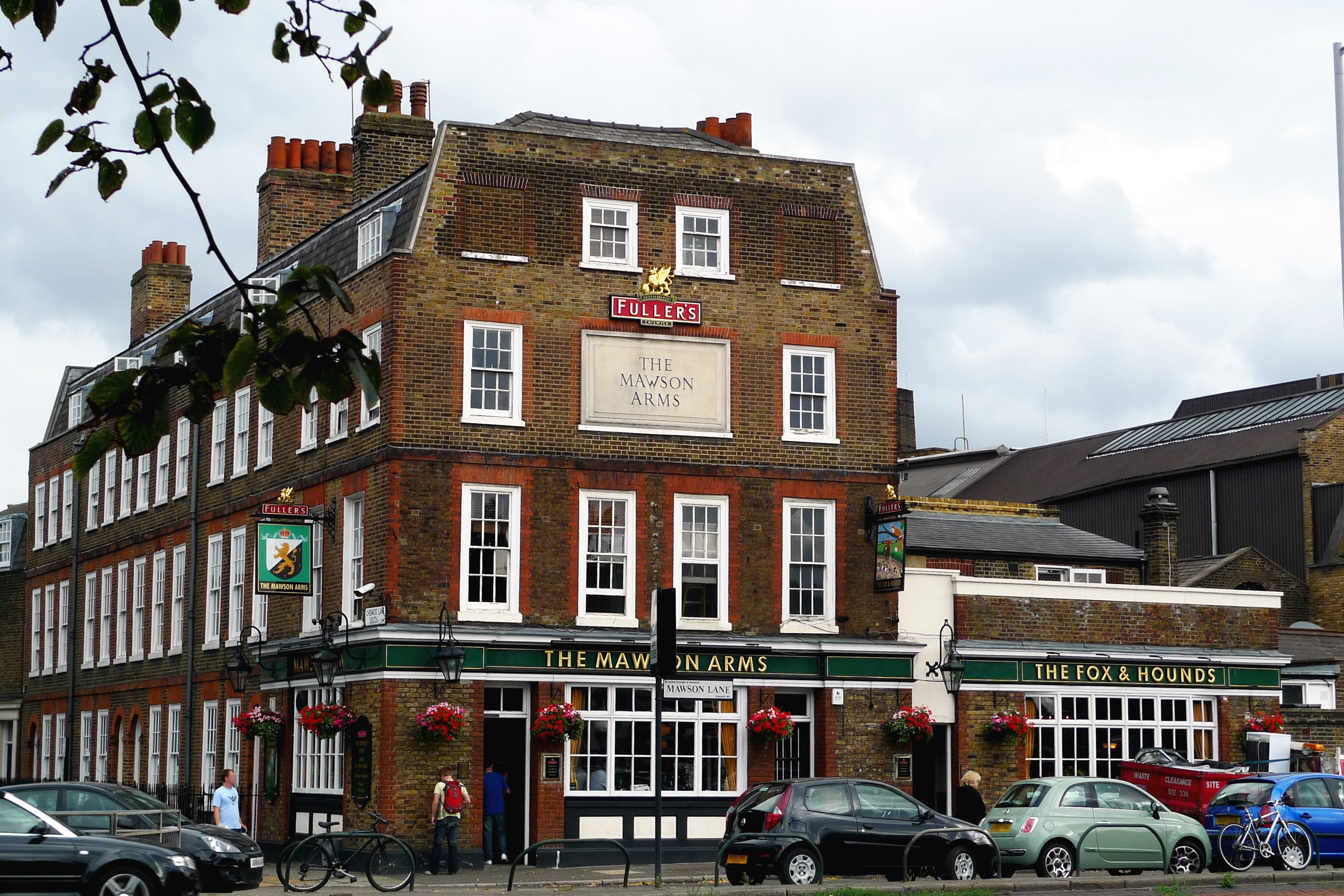 A strangely double-named pub (it was extended into Mawson House at some point and took the additional name; they have clearly kept both though, with separate signs as well). It adjoins the Griffin Brewery (to the right) and therefore serves as the brewery tap. Address: 110 Chiswick Lane South (sometimes listed as Mawson Lane). Former Name(s): The Fox and Hounds; The Fox and Dogs (on the same site). Owner: Fuller Smith Turner (website). Links: Randomness Guide to London Fancyapint Pubs Galore Beer in the Evening Beer in the Evening (Fox and Hounds) Dead Pubs (history)